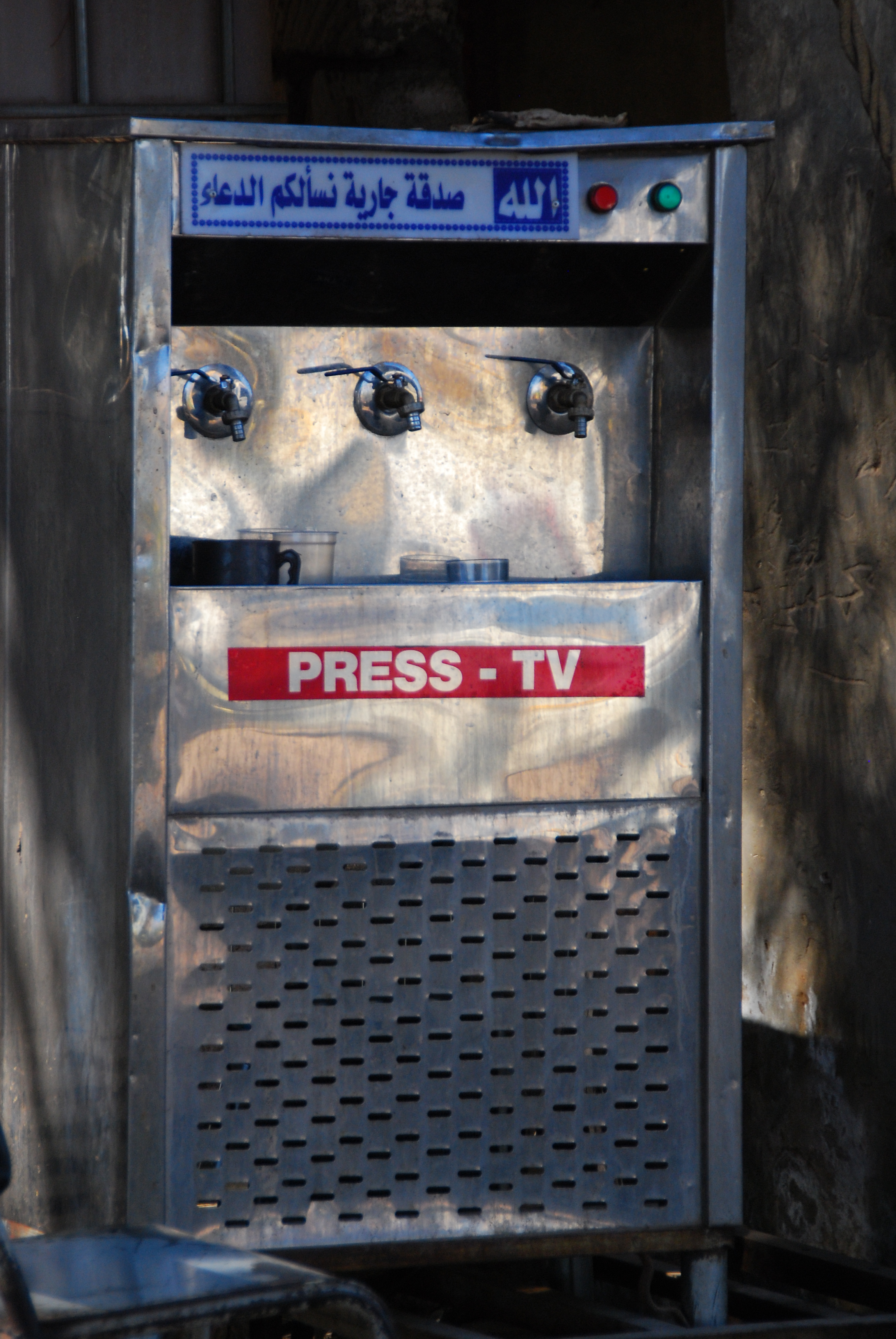 press-tv sticker on a water cooler at a checkpoint along the Cairo-Bahariya desert road